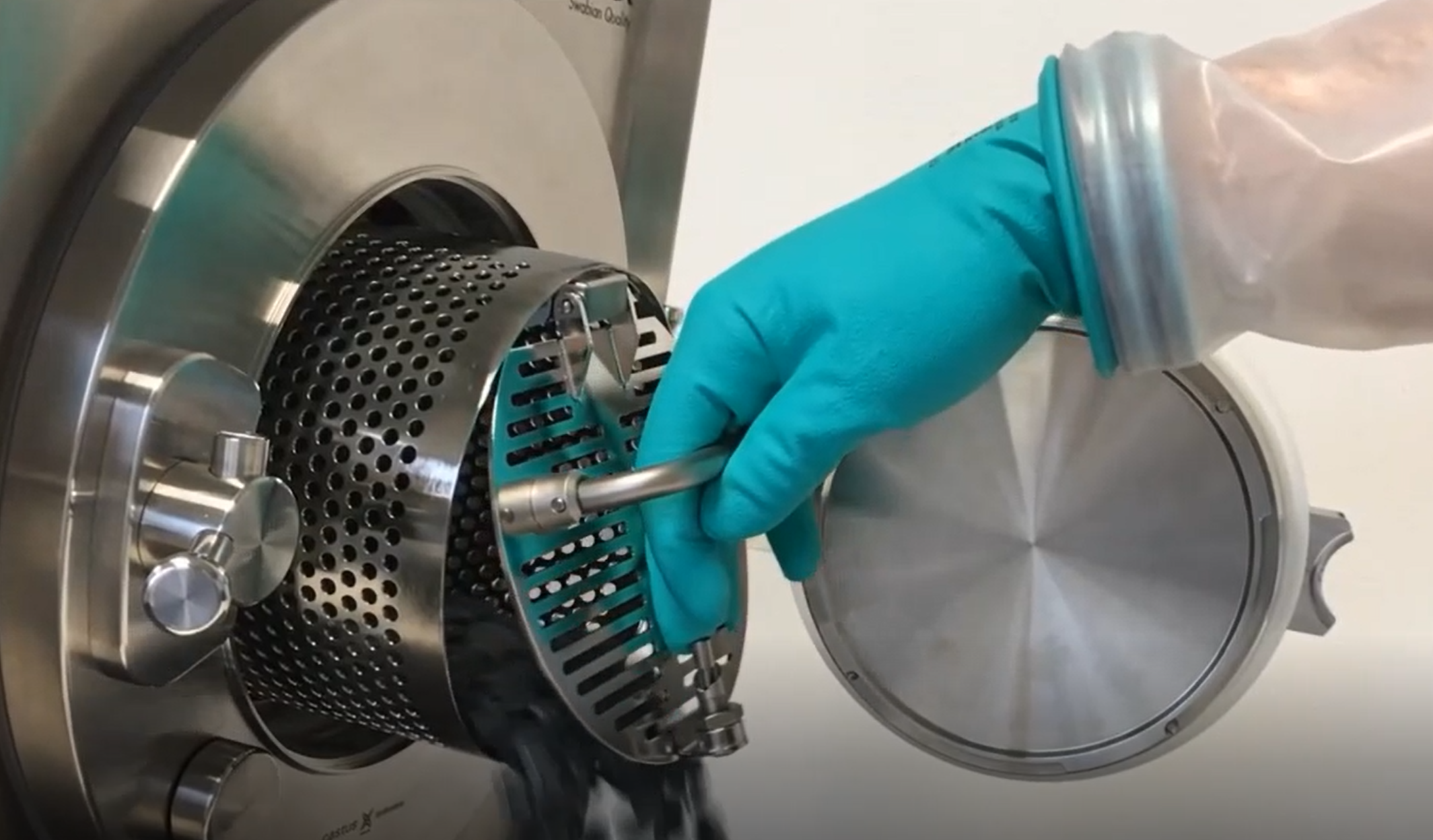 Transfer of stoppers and closures of pharmaceutical primary packaging